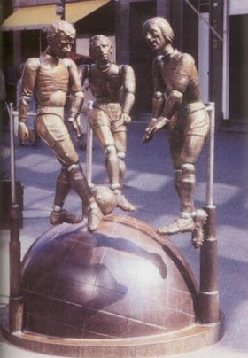 Monument to three soccer players of Borussia (Mönchengladbach) — Herbert Wimmer, Berti Vogts and Günter Netzer (from left to right). Placed in the pedestrian zone of Mönchengladbach (Germany).